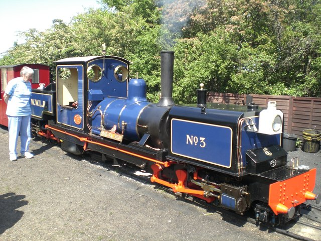 Norfolk Hero, Wells and Walsingham Light Railway The unique 2-6-0 + 0-6-2 Garratt locomotive. For more on the railway